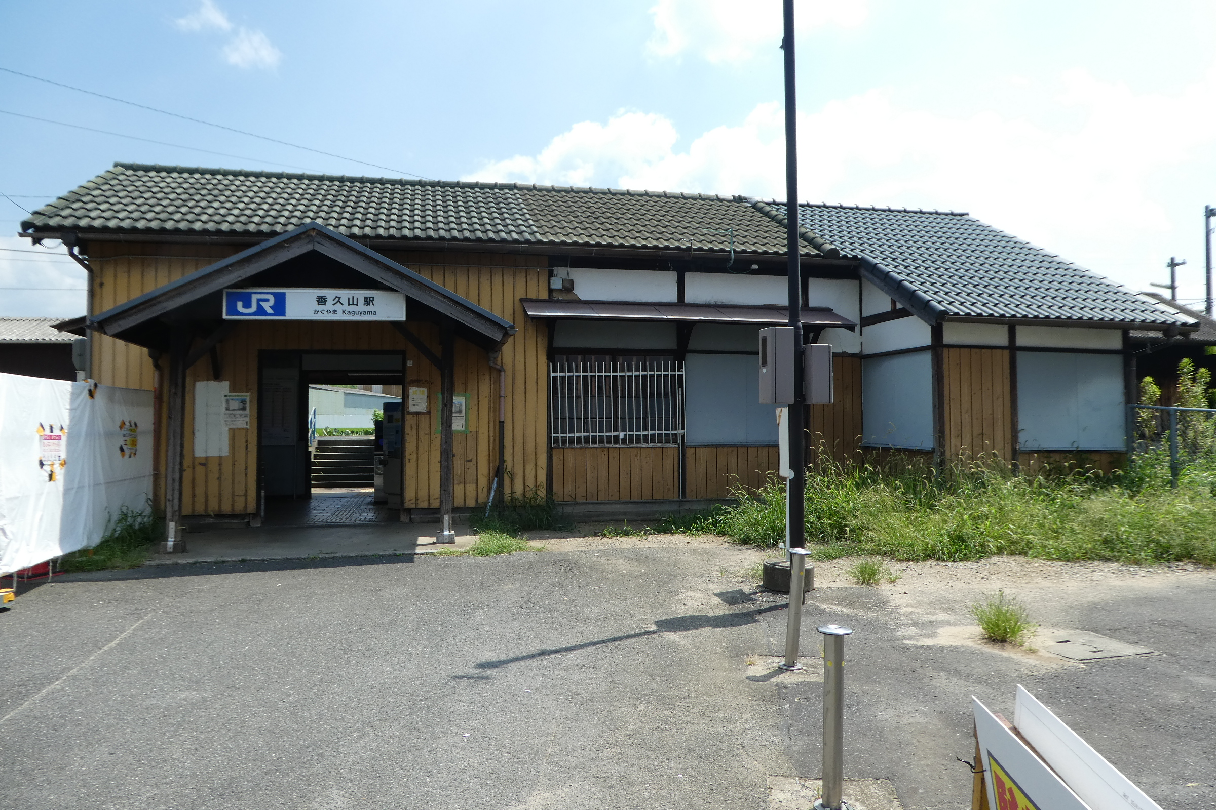 Kaguyama Station in Kashihara, Nara Prefecture, Japan. August 6th, 2018